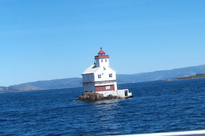 Stabben lighthouse, Flora, Sogn og Fjordane, Norway